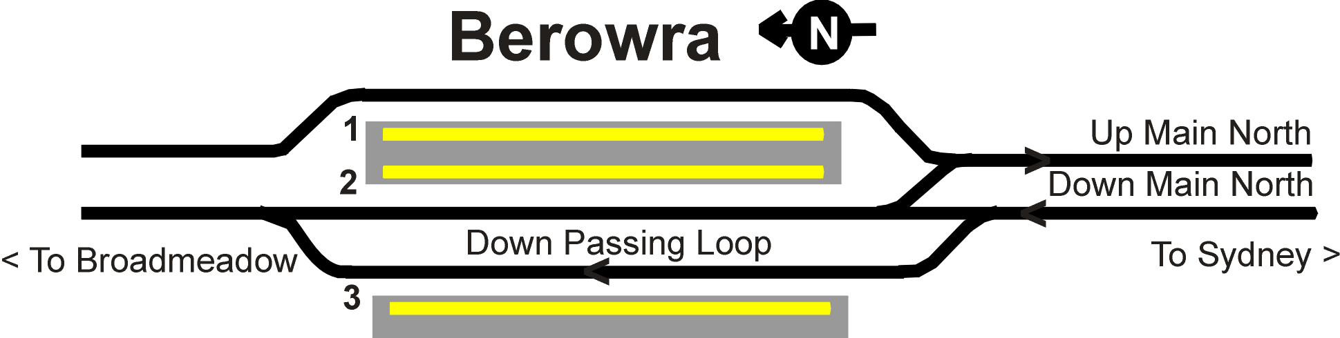 Track layout at Berowra railway station, Sydney